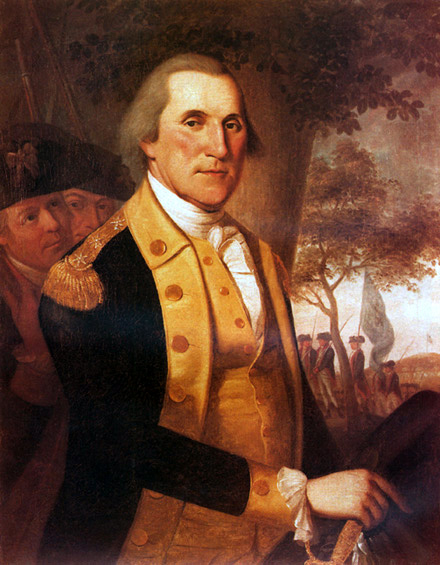 George Washington; Oil on canvas, 361/2" x 273/4"